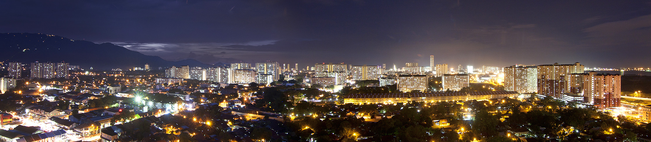 Night scene at Penang Jelutong area